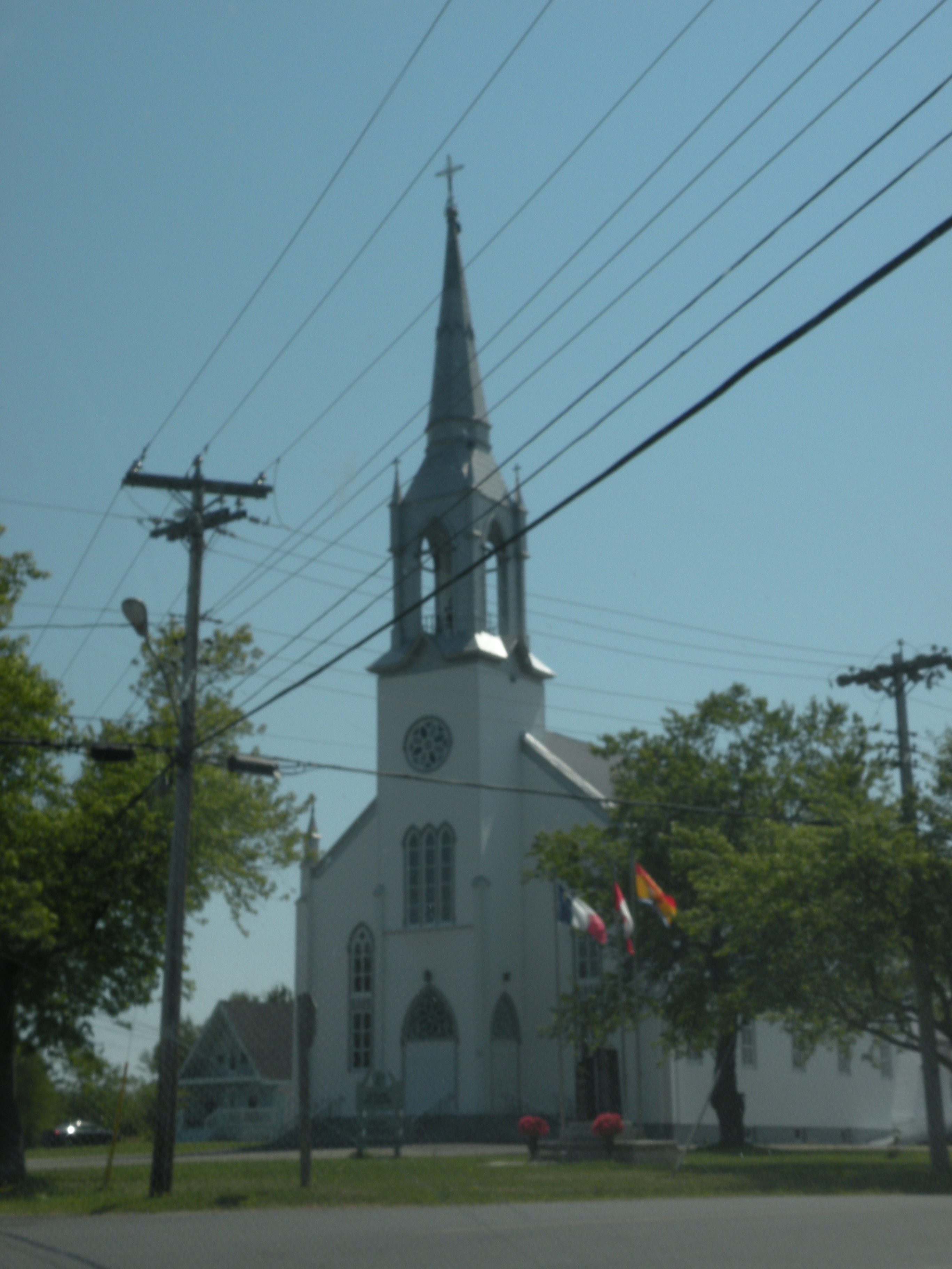 Saint-Simon church in Saint-Simon, New Brunswick, Canada.